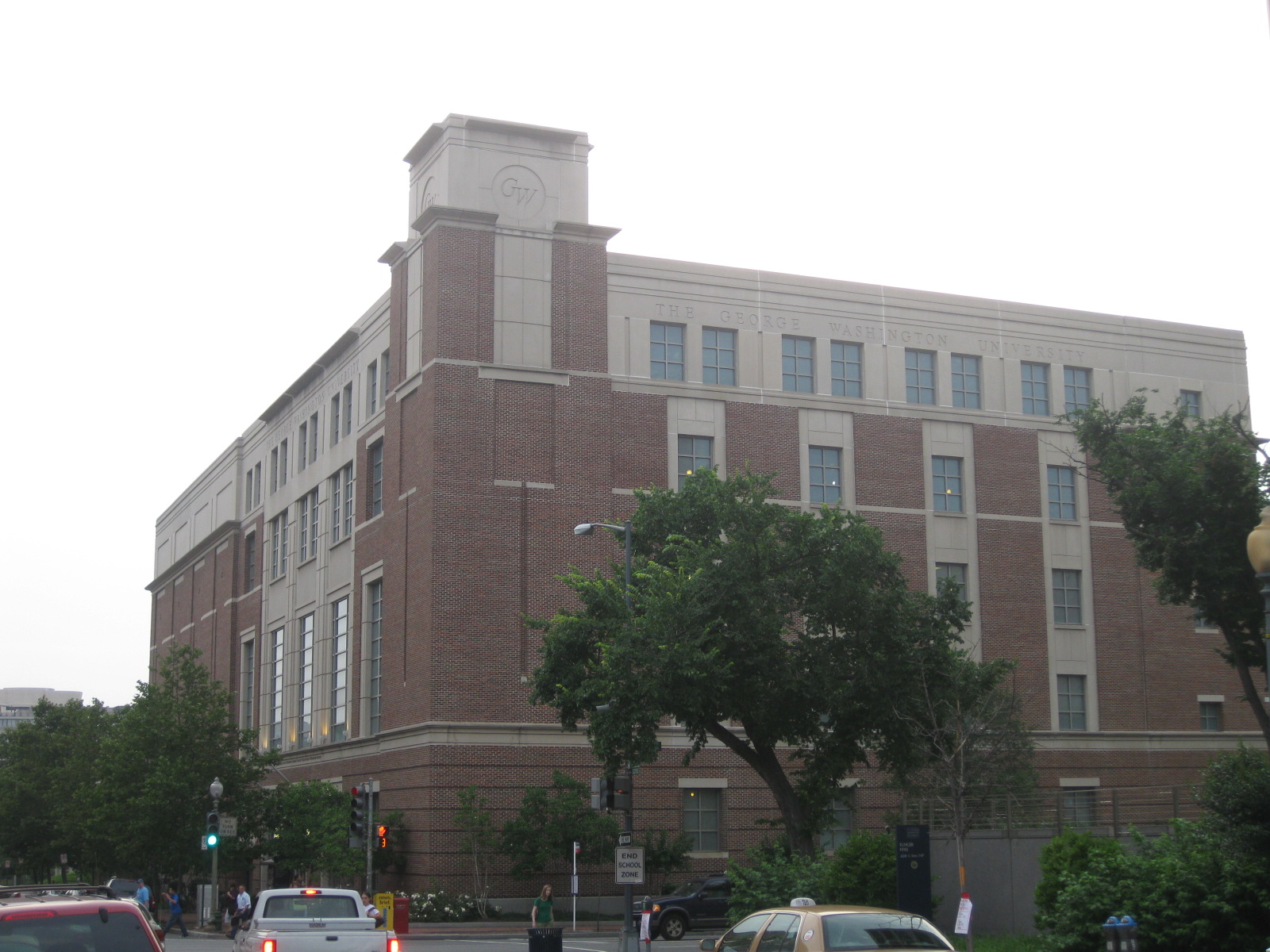 The Lerner Health and Wellness Center at the George Washington University.